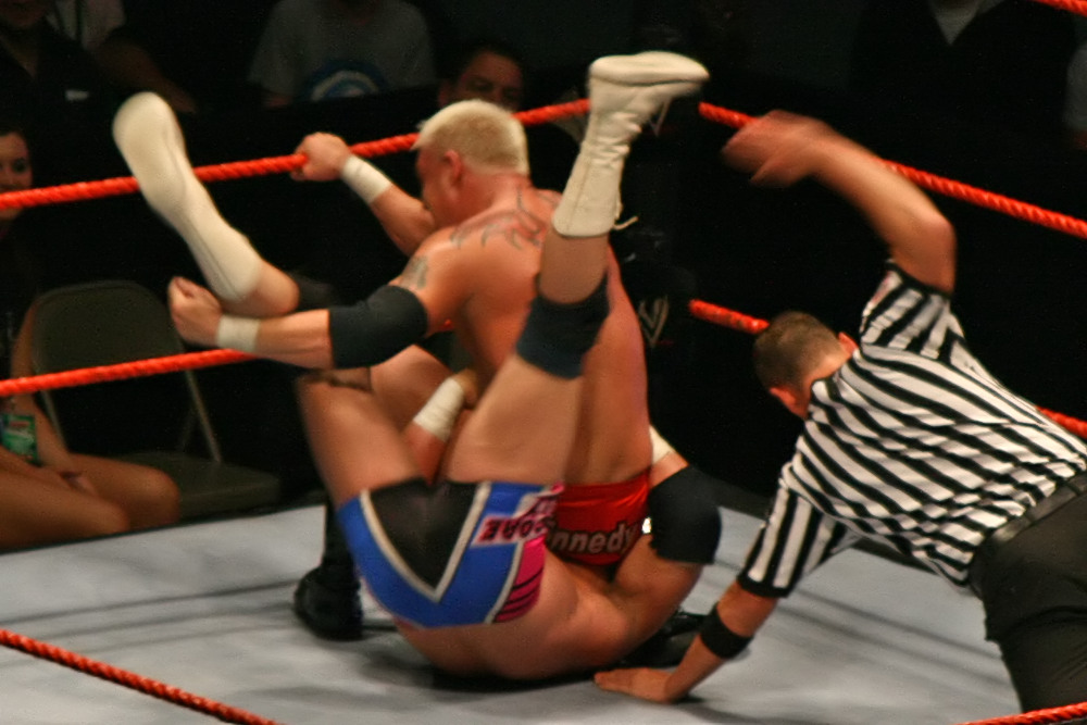 Mr. Kennedy (Ken Anderson) gets the pin on Hardcore Holly, using a roll-up and illegally holding the middle rope. Taken during the WWE Raw - Survivor Series Tour, at Rod Laver Arena, Melbourne Park, Melbourne, Australia. Kennedy wrestled Bob 'Hardcore' Holly; the match was won by Kennedy pinning Holly with a roll-up.